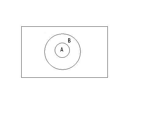 Representación por diagramas de Venn ownwork I hereby assert that I am the creator of this contribution and/or it does not violate any third party rights. I agree to publish this text under the GNU Free Documentation License. MONIMINO 27/11/2006